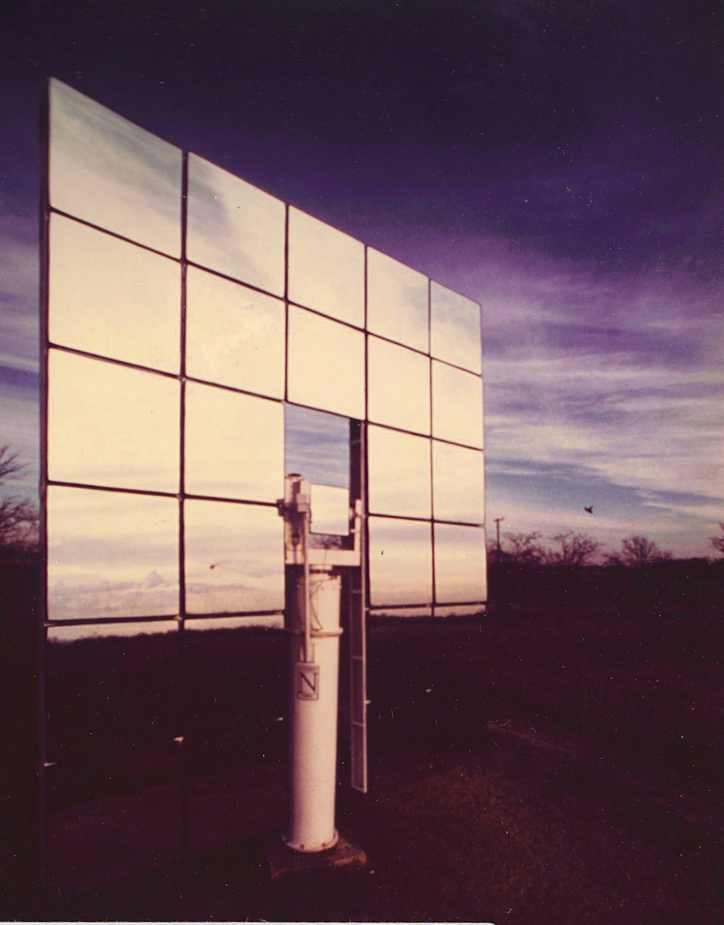 Northrup I Heliostat — developed by Leonard L. Northrup Jr..